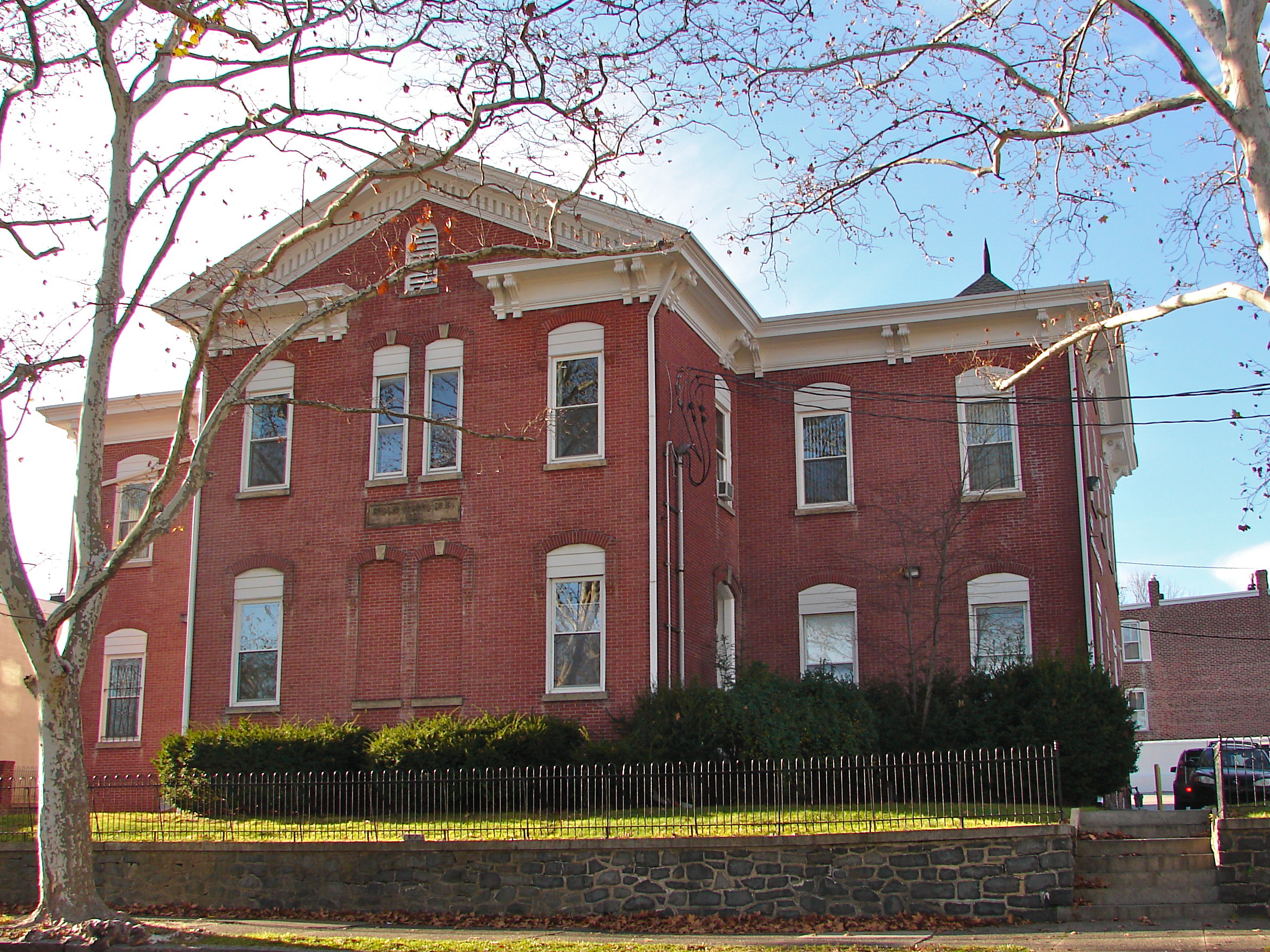 Public School No. 19, Wilmington, Delaware, on the NRHP since December 20, 1984. At 801 S. Harrison St., Wilmington, DE (near Maryland Ave.)